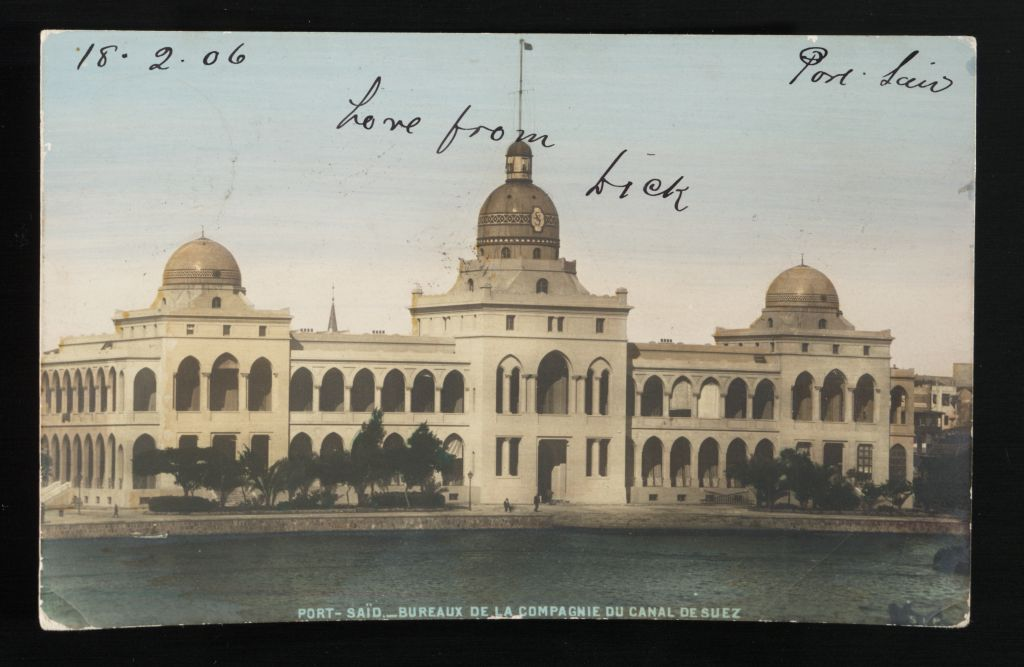 Color photo of a large building